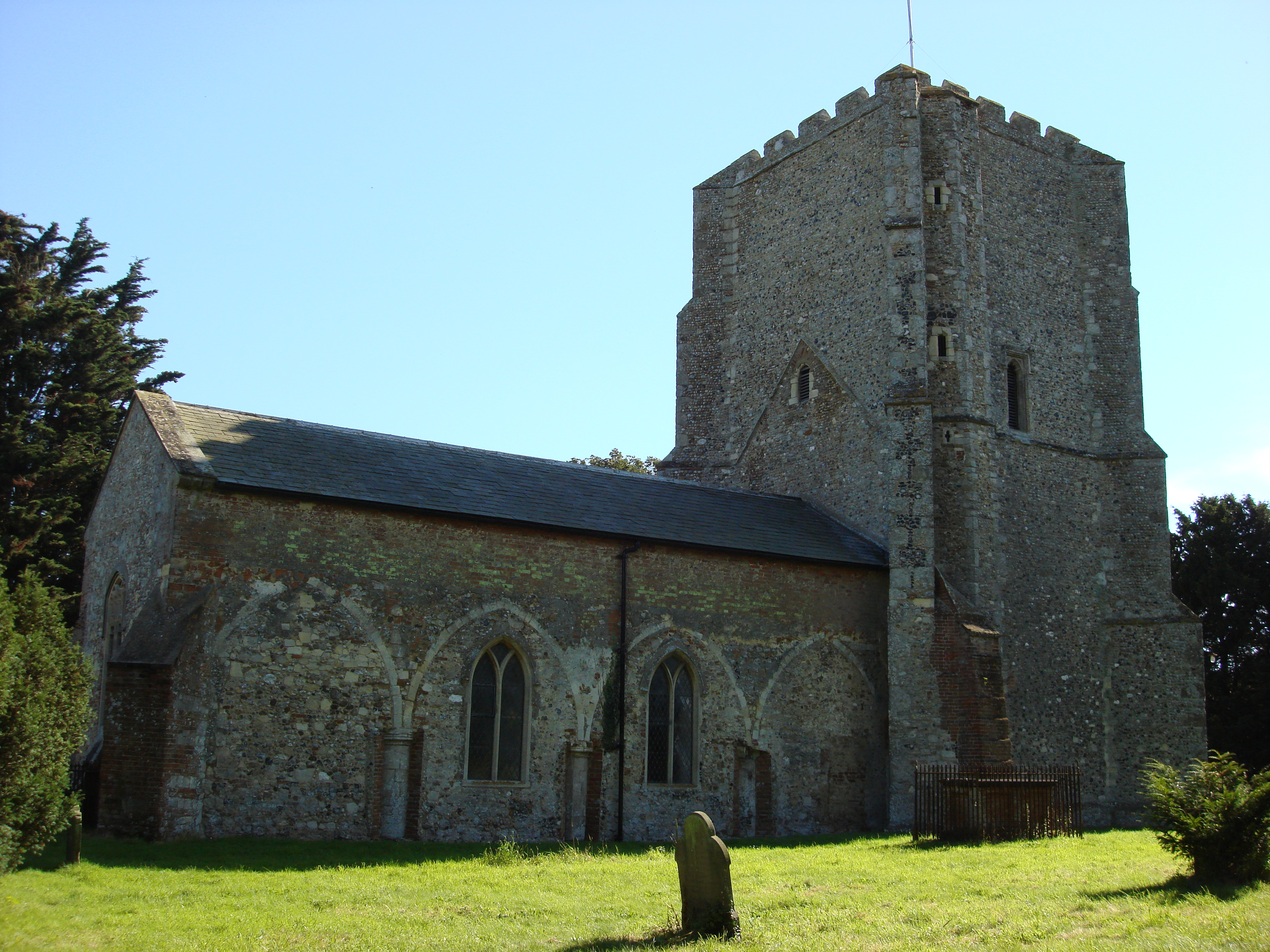 Saint Mary's Church, Bawdsey, Suffolk, Great Britain